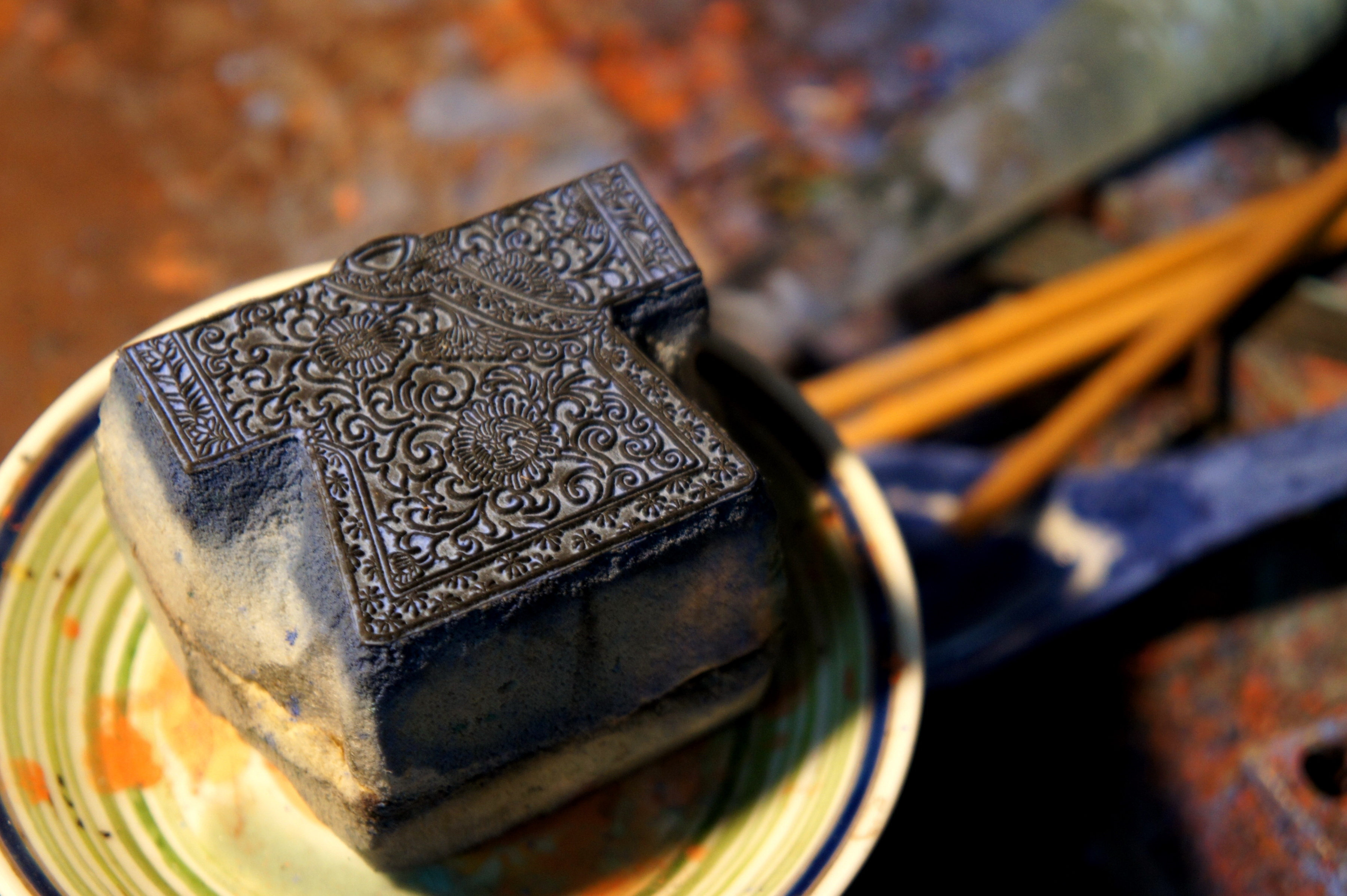 A rubber stamp for ceramic products. (Photo shot at Yuet Tung China Works, Hong Kong)